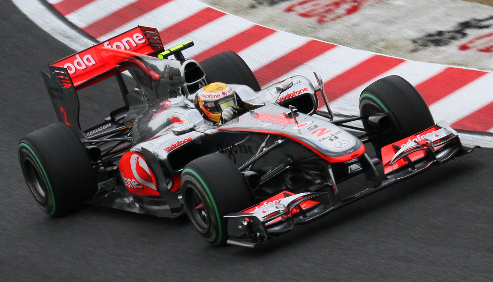 Formula One 2010 Rd.16 Japanese GP: Lewis Hamilton (McLaren) during Friday 2nd Free Practice session.